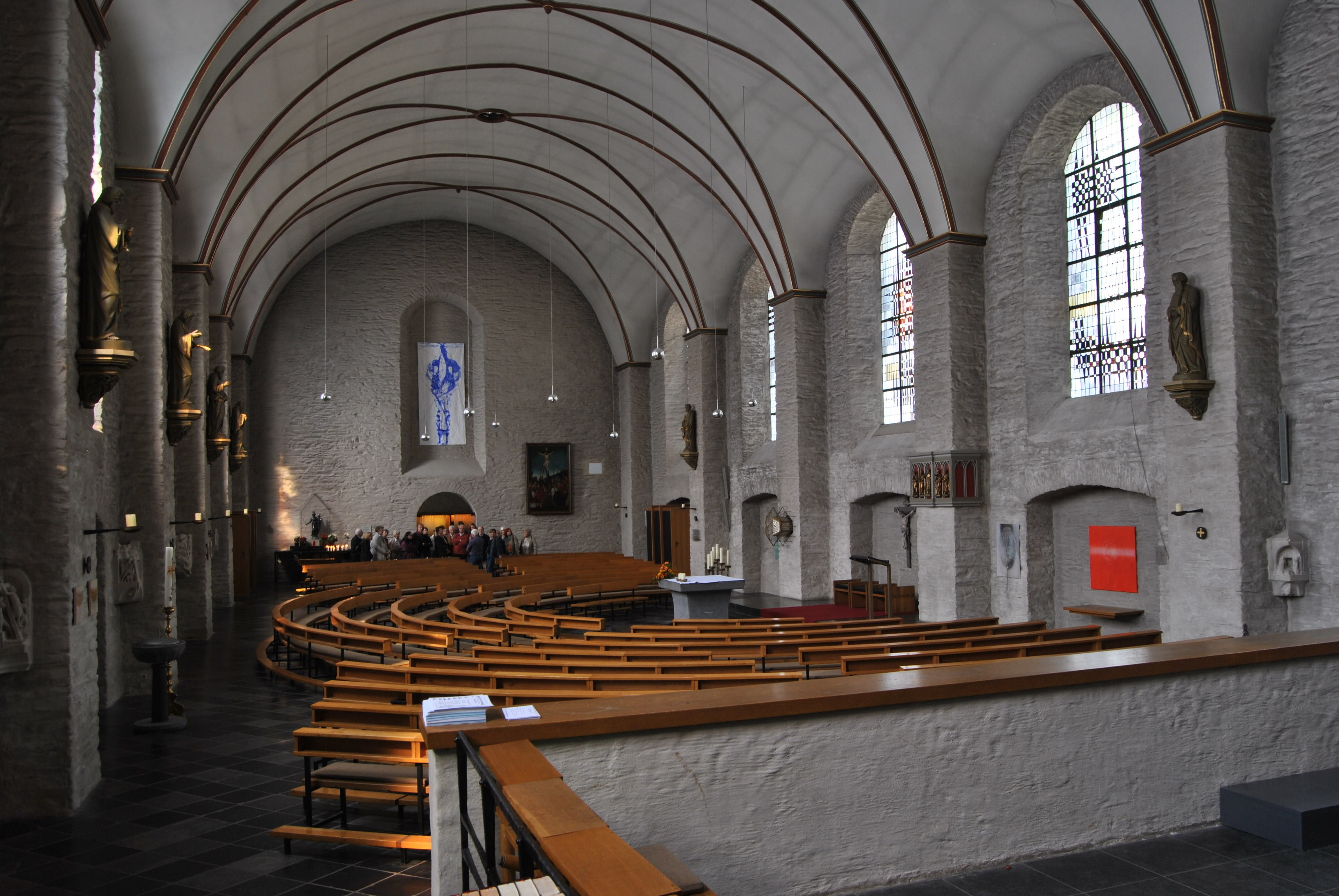 Monschau (North Rhine-Westphalia, Germany) – Immaculate Conception Church – interior viewed from the east This image shows a heritage building in Germany, located in the North Rhine-Westphalian city Monschau (no. 136). This photograph was taken with a Nikon D3000